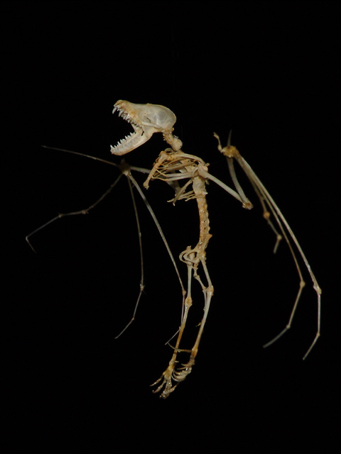 Skeleton of a Greater mouse-eared bat (Myotis myotis). Ribcage is damaged.